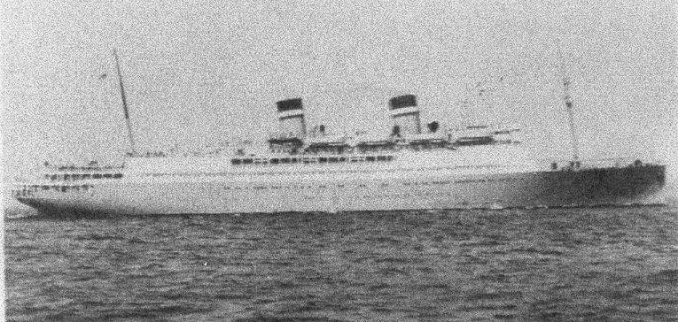 USAT Thomas H. Barry formerly SS Oriente, (sister ship of the ill-fated SS Morro Castle, which was destroyed by fire off Asbury Park, N J, 8 September 1934), seen here off Norfolk, VA.